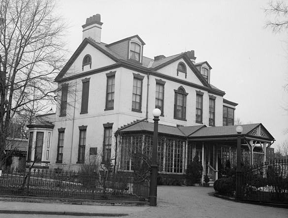 Historic American Buildings Survey Delos H. Smith, Photographer February 25, 1936 VIEW FROM SOUTHEAST (front) - Navy Yard, Commandant's House, Eighth & M Streets Southeast, Washington, District of Columbia, DC